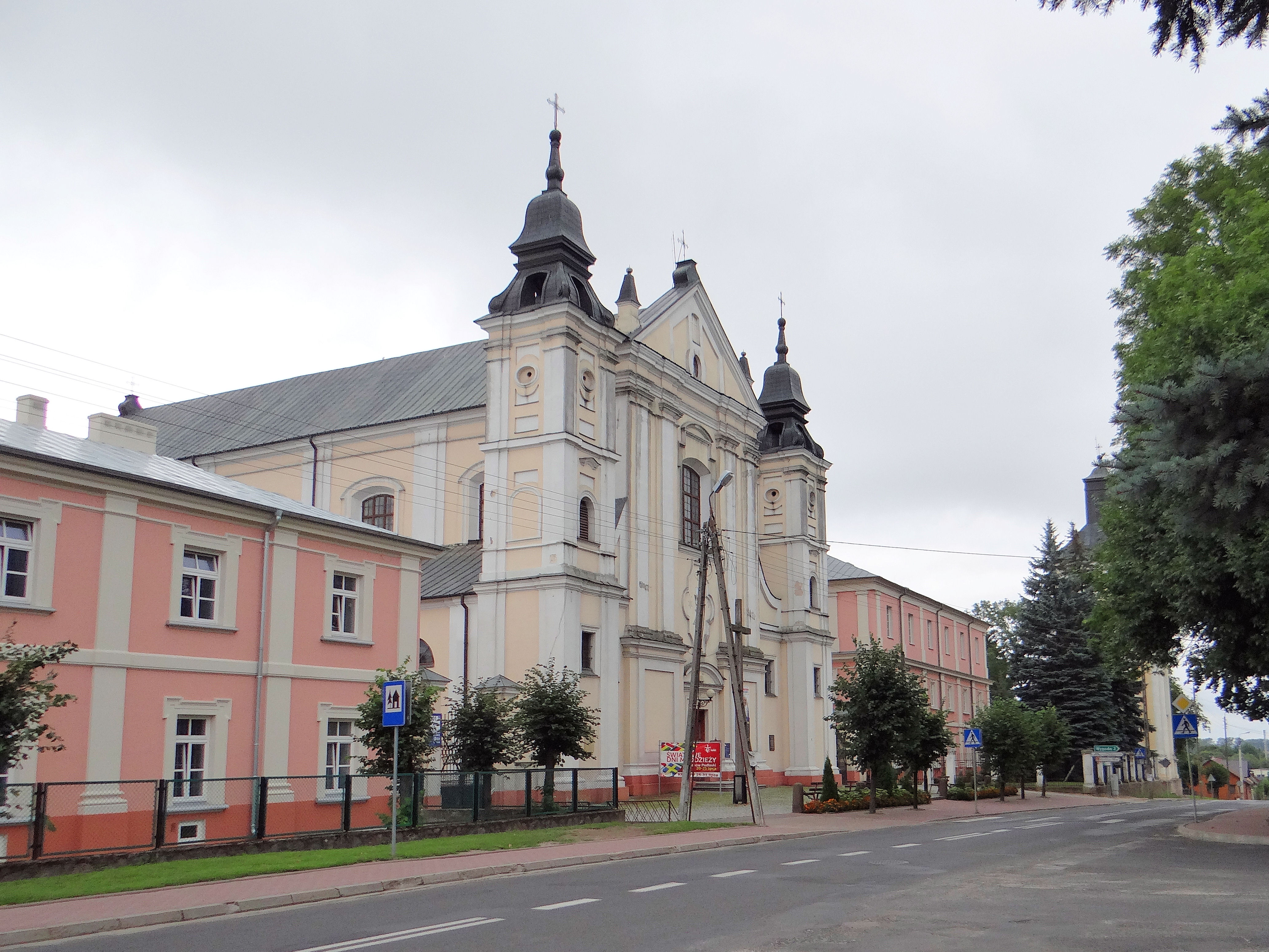 Holy Trinity church in Janów Podlaski